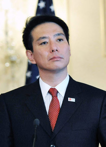 U.S. Secretary of State Hillary Rodham Clinton and Japanese Foreign Seiji Maehara hold a joint press availability in the Benjamin Franklin Room at the U.S. Department of State in Washington, D.C., on January 6, 2010.